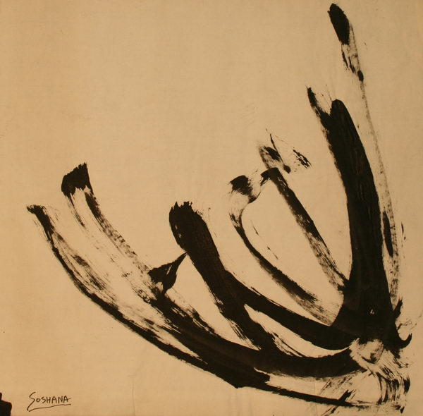 Kyoto, Ink on Paper, painted by Soshana, 1957 Kyoto, Tusche auf Papier, gemalt von Soshana 1957